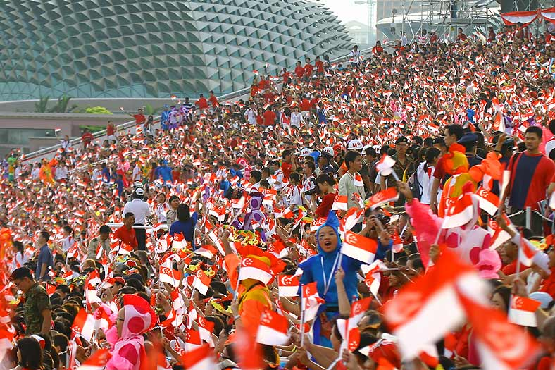 Crowds watching the National Day Parade near Esplanade – Theatres on the Bay in Singapore, photographed by Loo Beng Chye (B_cool) on Singapore's National Day (9 August) in 2007.